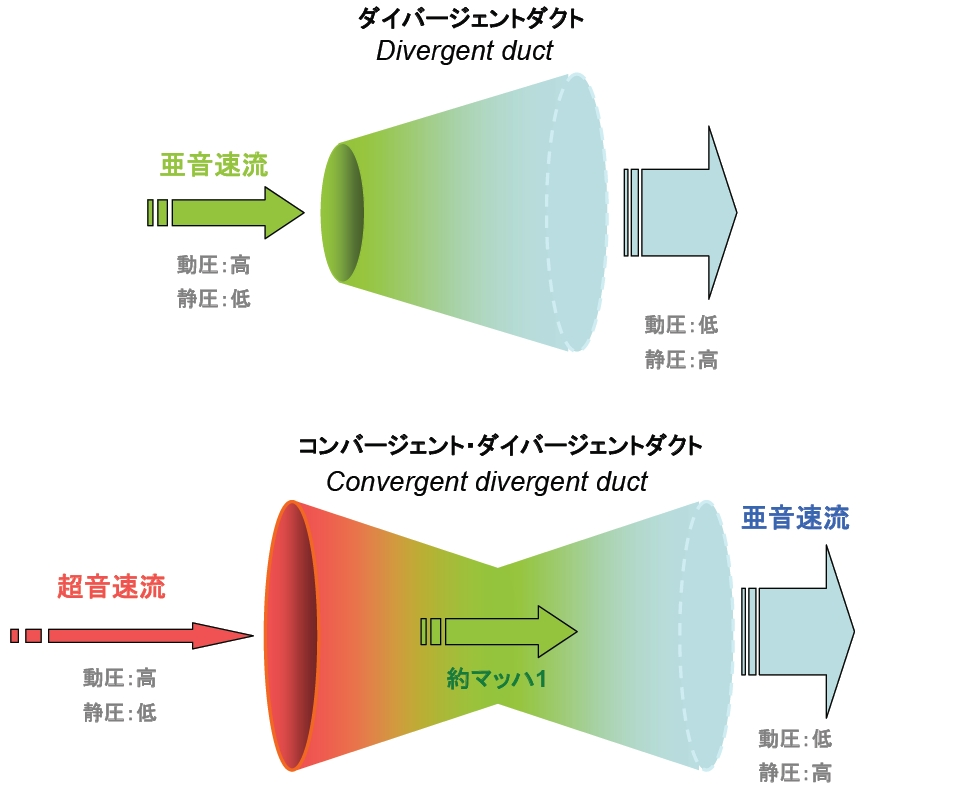 Illustration of Divergent-duct and Convergent-divergent-duct in air-intake.